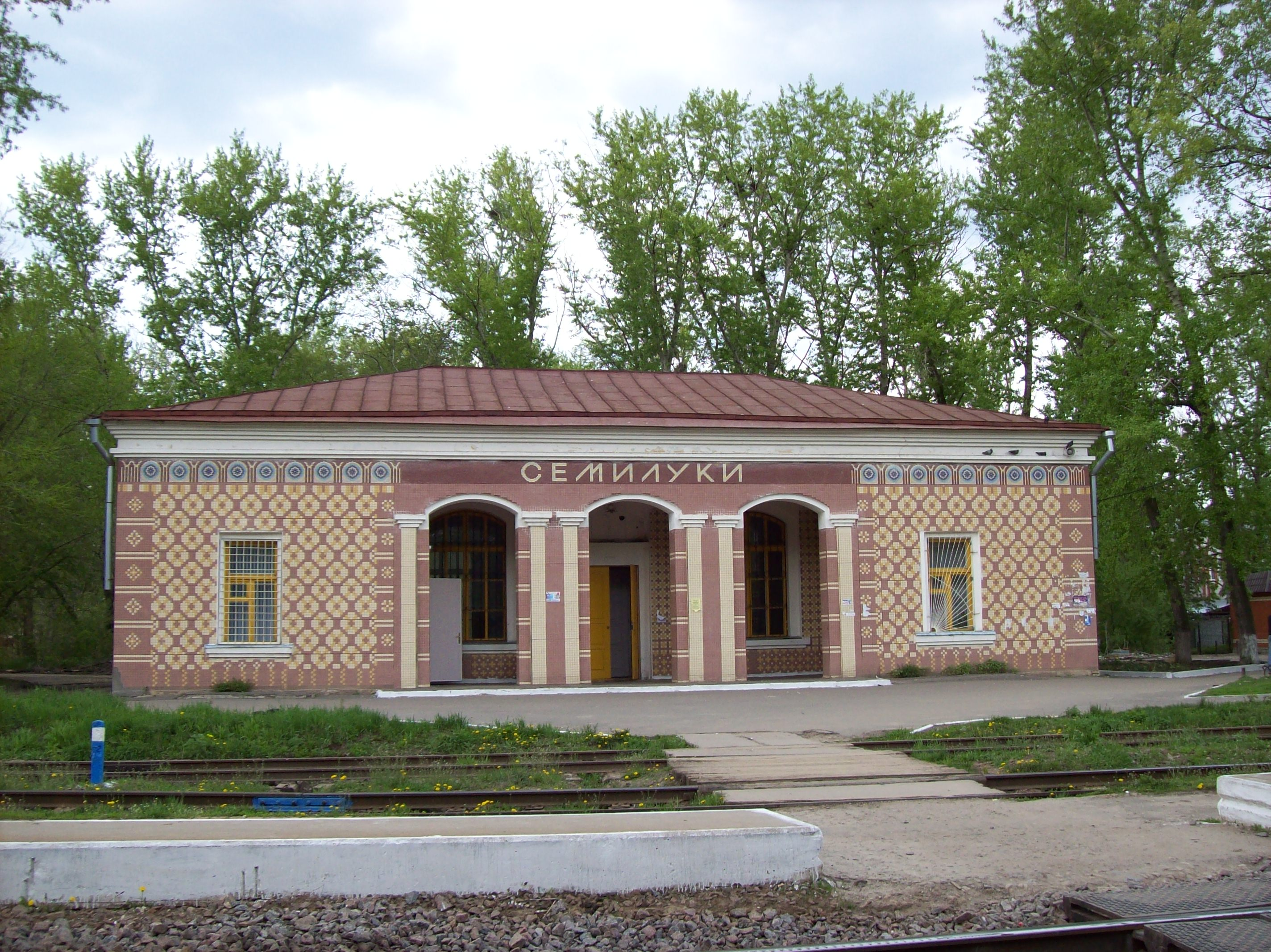 Railway station, town Semiluki, Voronezh region.